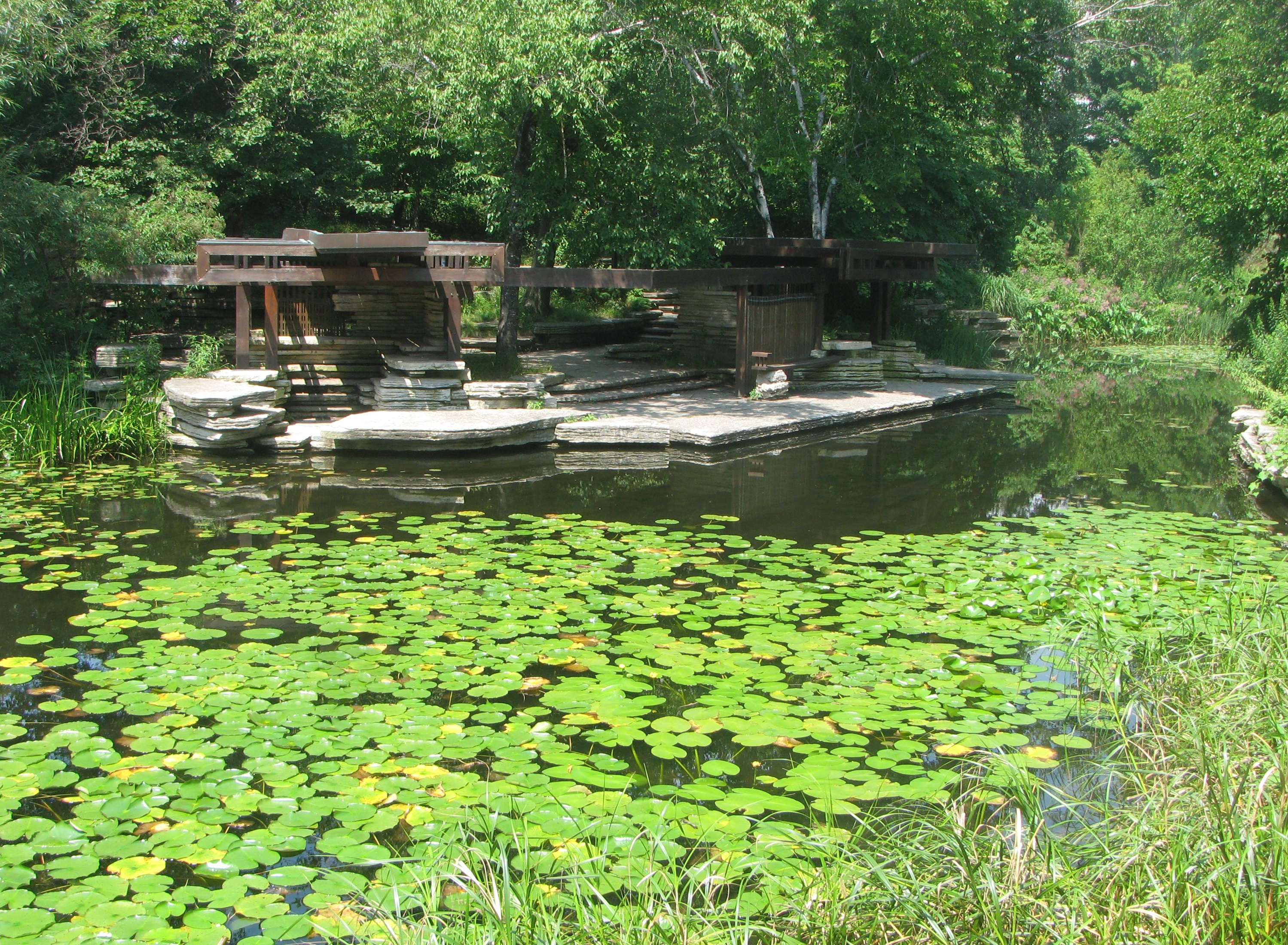 Alfred Caldwell Lily Pool rotated 2 degrees counterclockwise from original